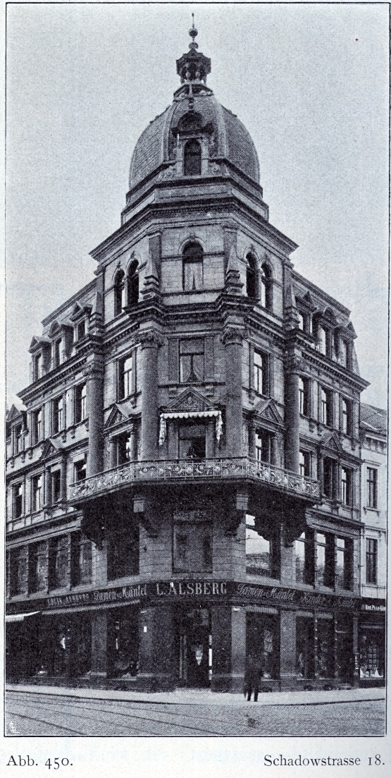 Geschäftshaus Schadowstraße 18, Ecke des Schadowplatzes, für die Firma Louis Alsberg, Architekten "Boldt & Frings" im Jahre 1888 erbaut.jpg